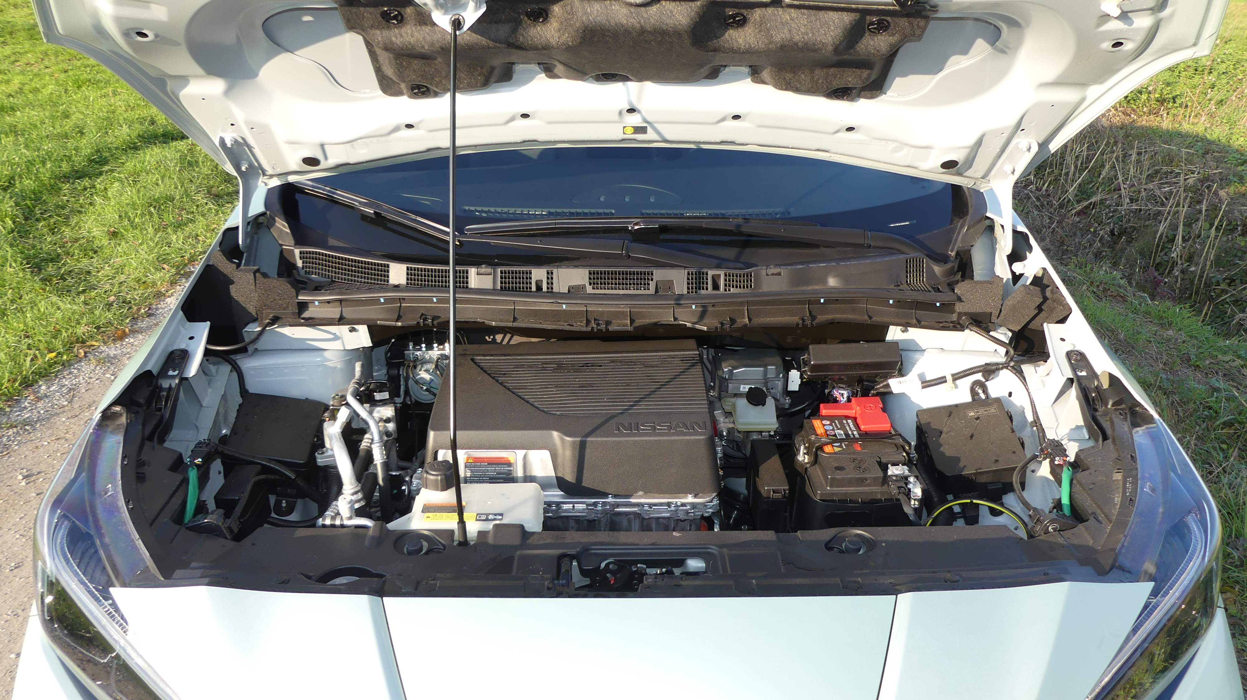 view under the hood of a Nissan Leaf ZE1 built in 2018